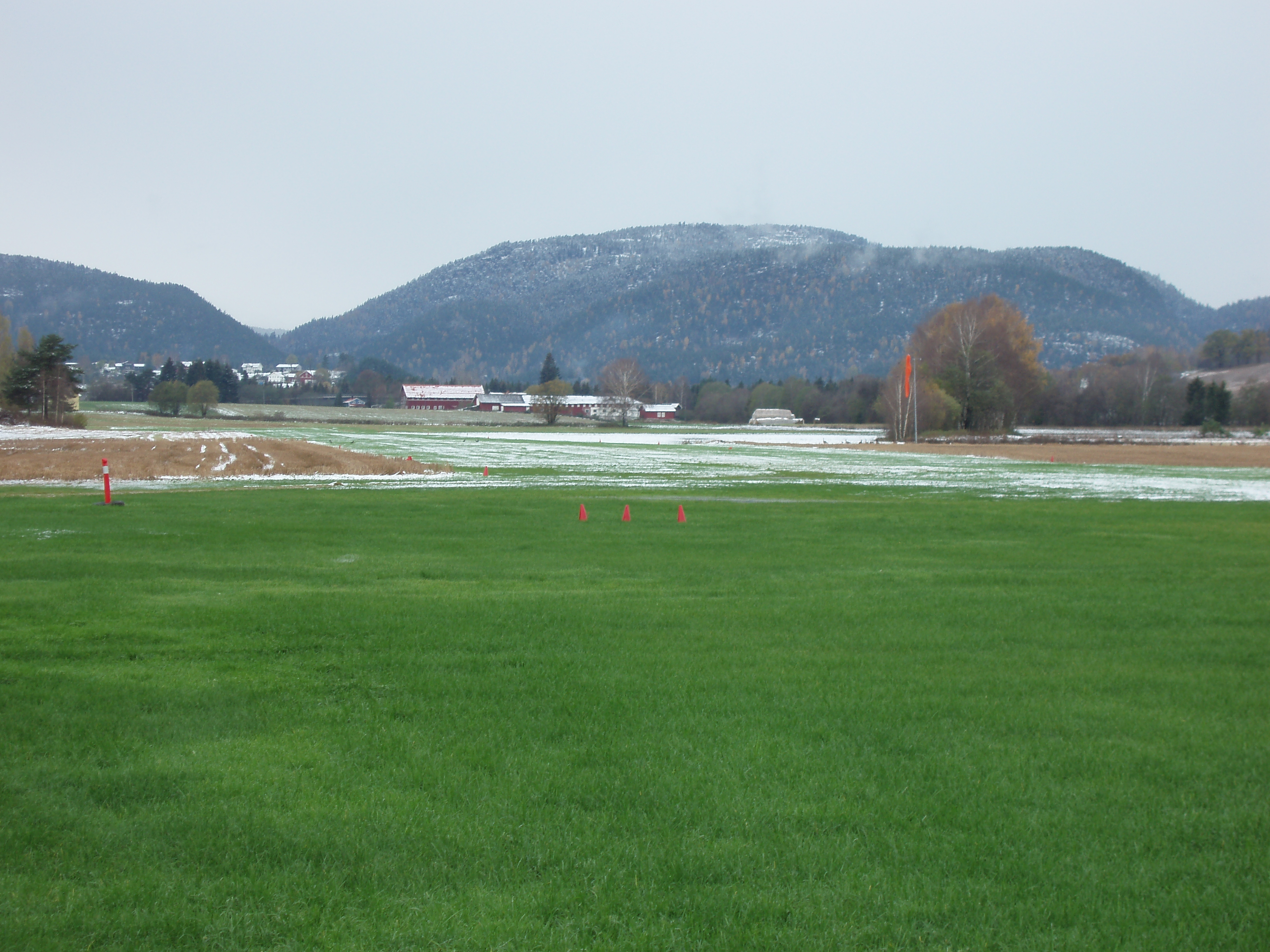 Lunde Airport, Nome in Nome municipality in Telemark county in Norway. The picture is taken towards west and shows the runway.